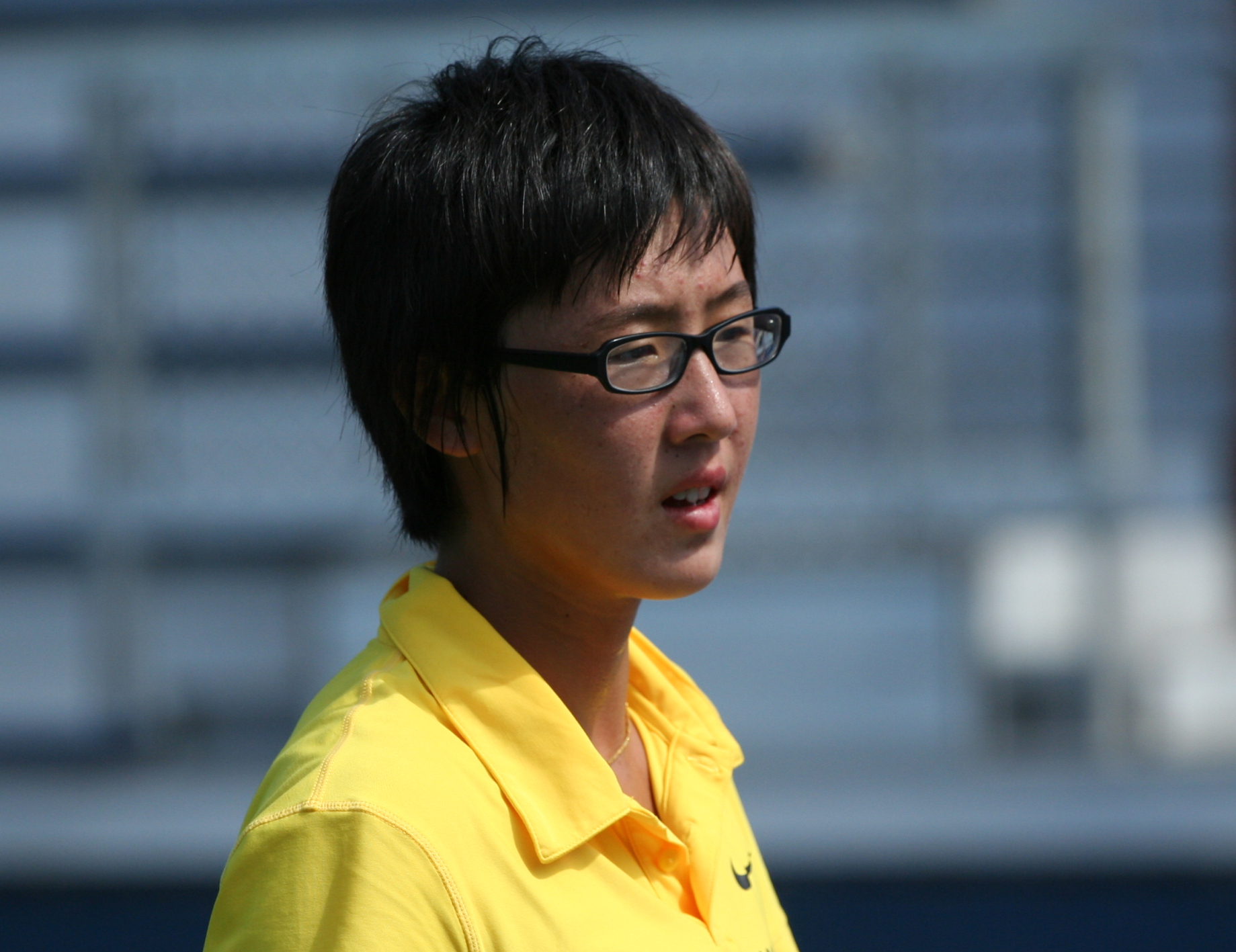 U.S. Open Juniors Sunday, Sept. 6, 2009